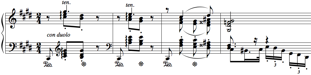 Piano Concerto No. 1, Mvt. II (Op. 59), composed by Moritz Moszkowski. Excerpt from second movement.